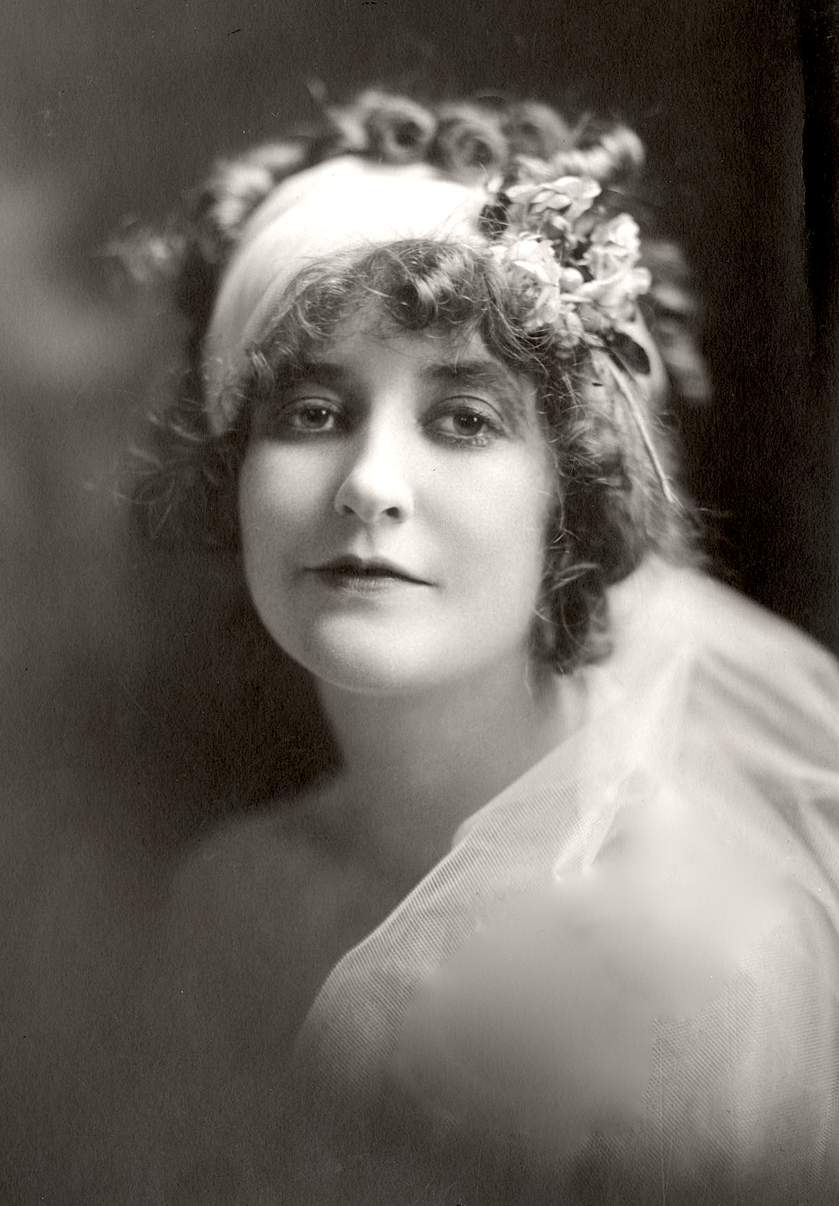 Rhea Mitchell, stock actress Subjects: actresses